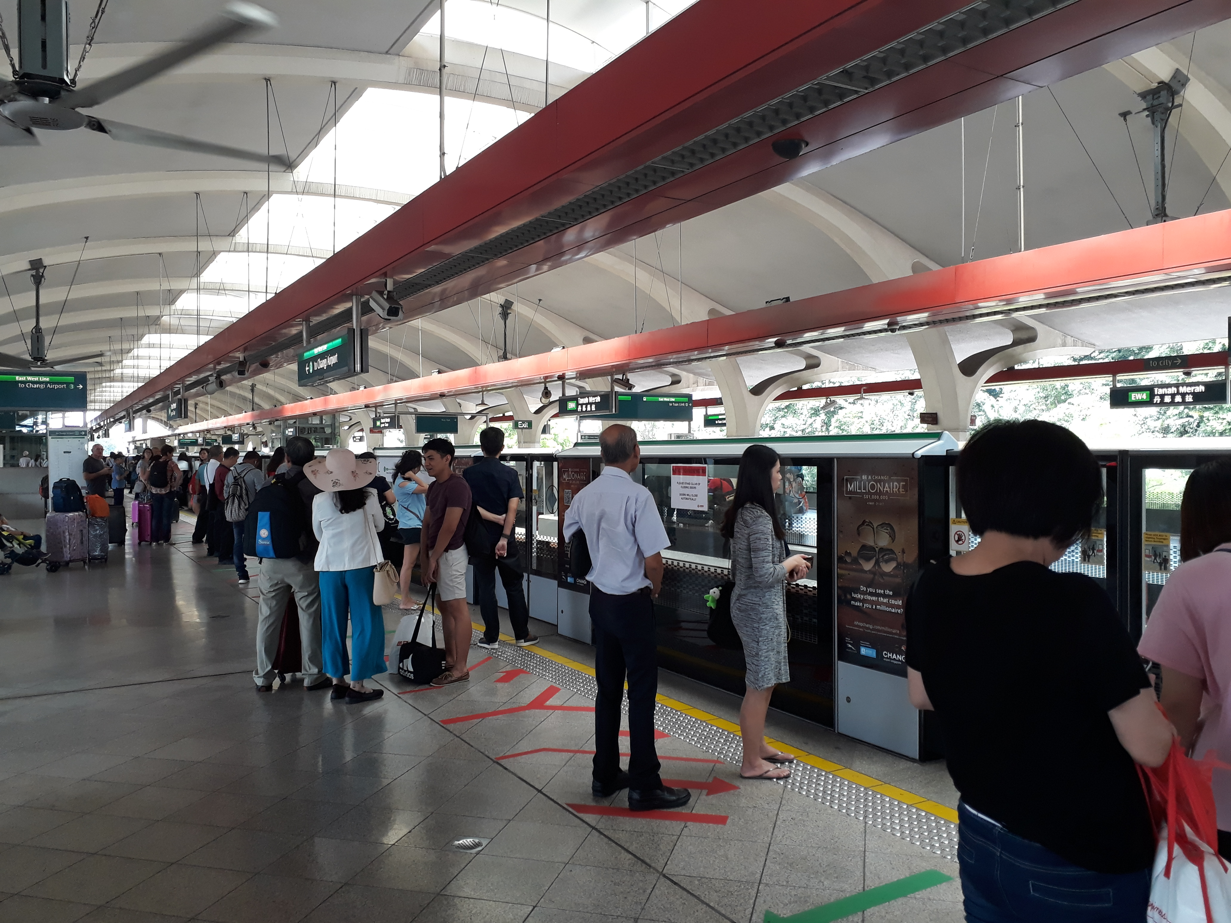 Tanah Merah station with passengers waiting for the train bound for Changi Airport.